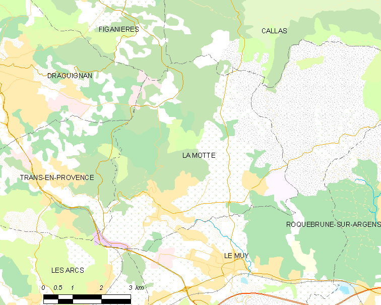 Map of French municipality La Motte